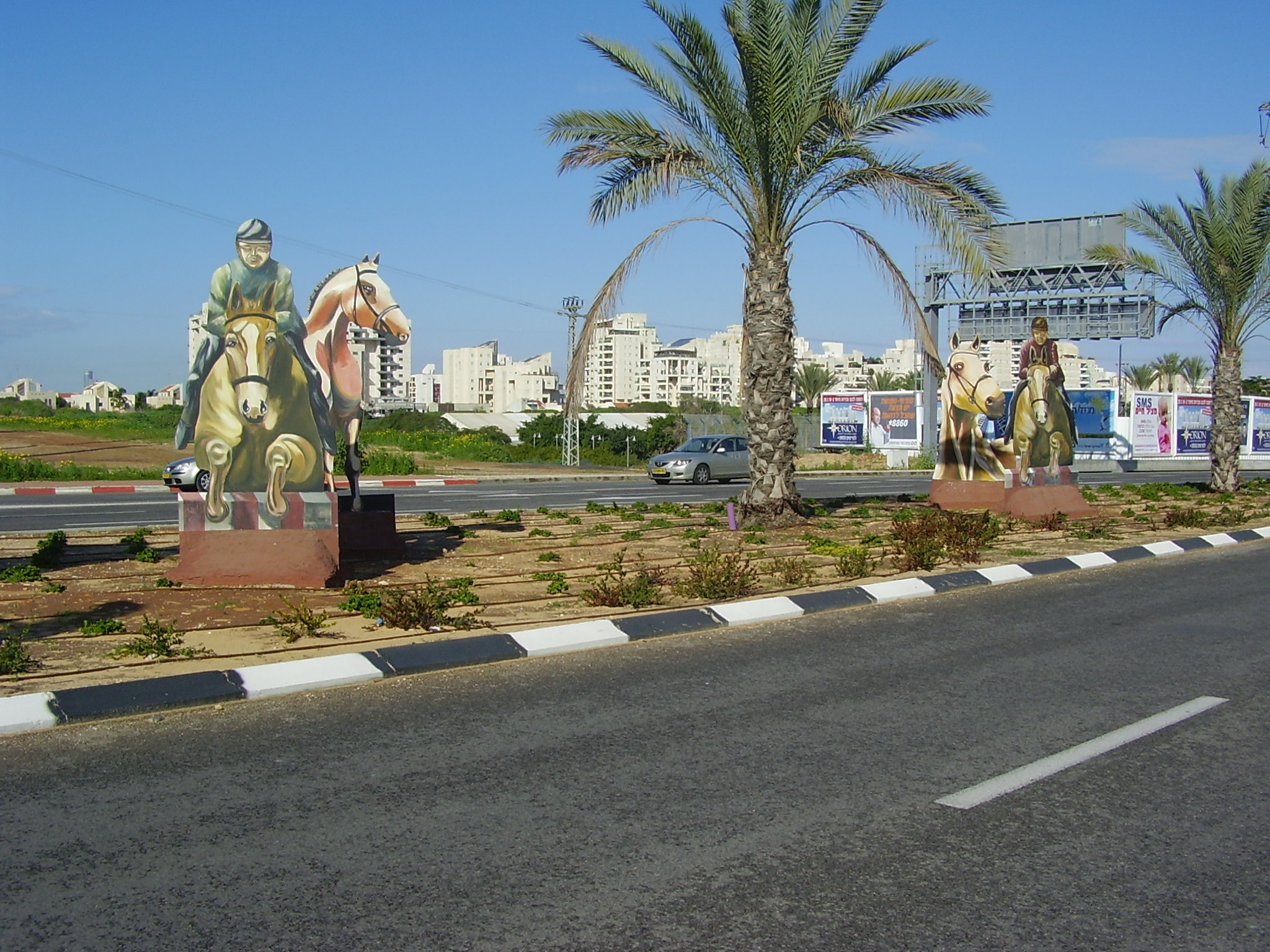 riders in petakh tikvah